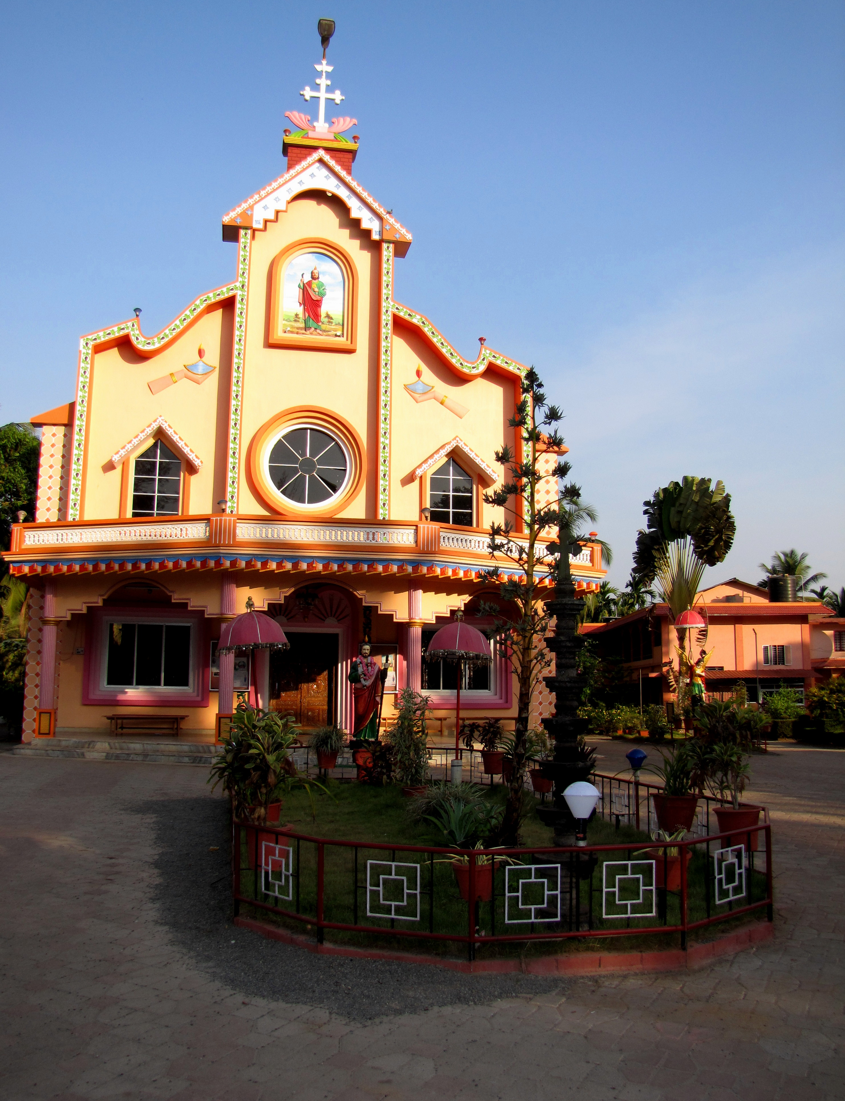 Karunapuram St. Judes Church, Chanokkundu